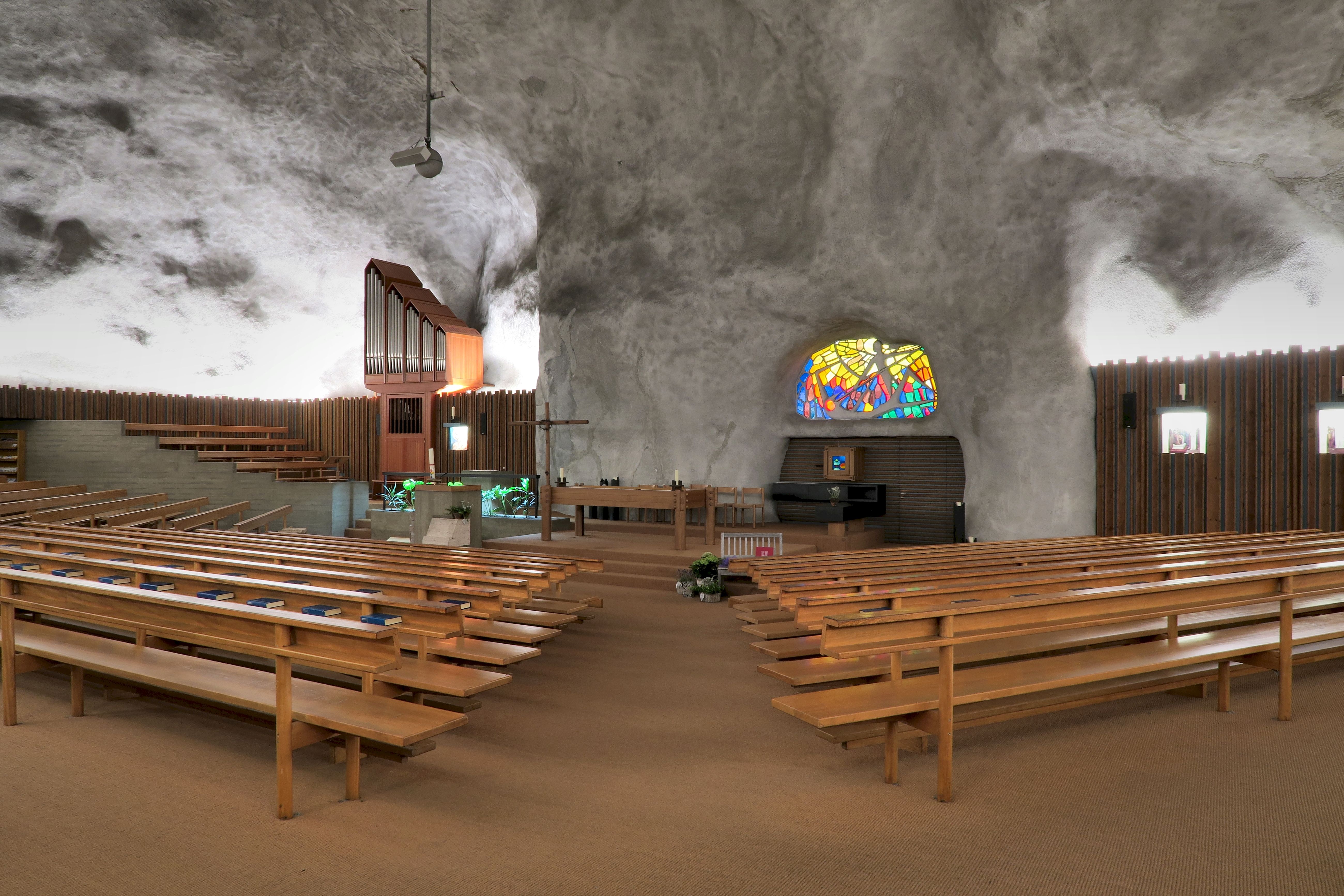 The largest extents of the cave are 35 x 19 m. The underground church St. Michael was built from 1971 to 1974. Switzerland, Aug 8, 2016. (5/7)